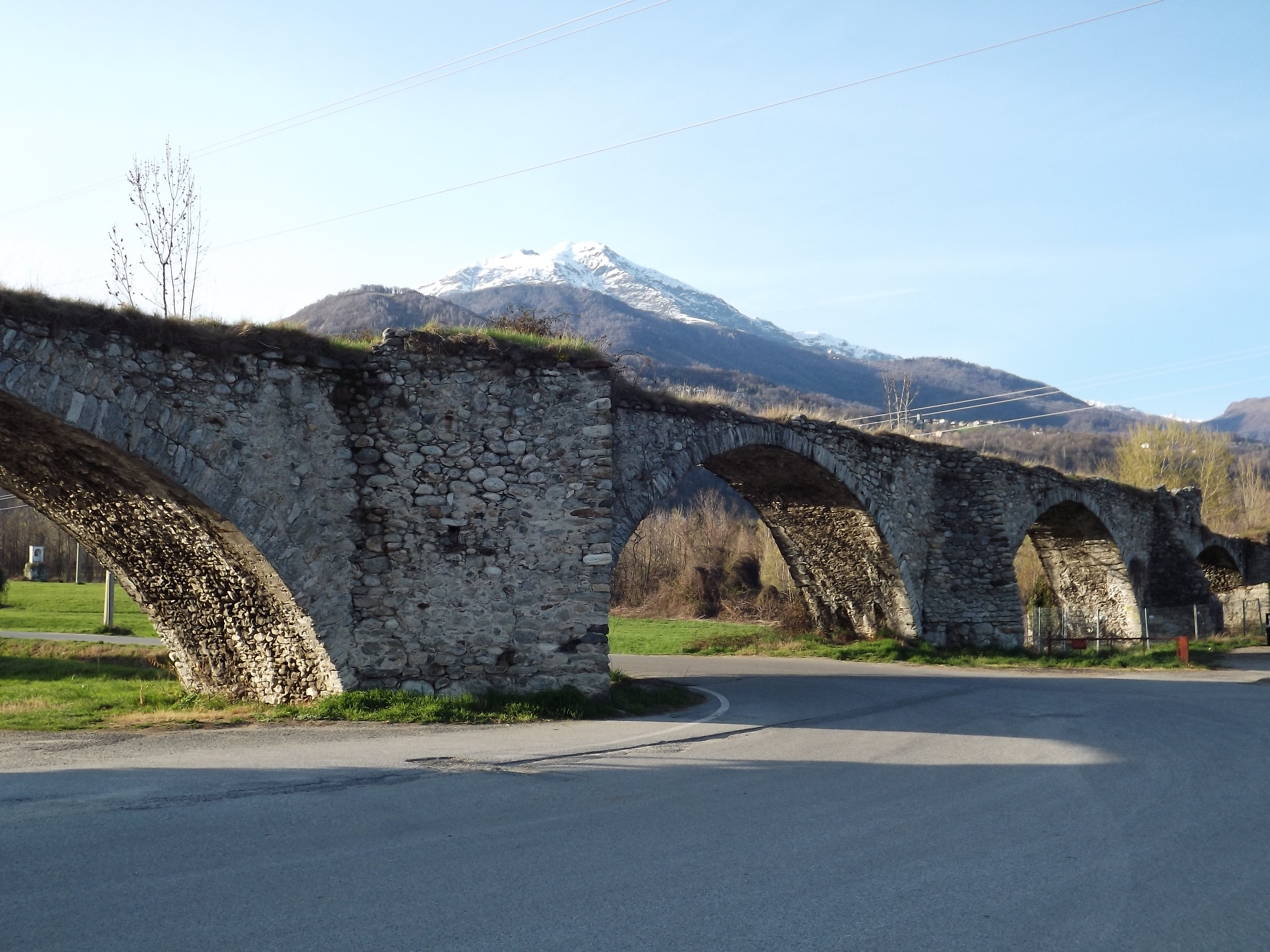 Old bridge near Cuorgnè, in the background Punta Quiseina